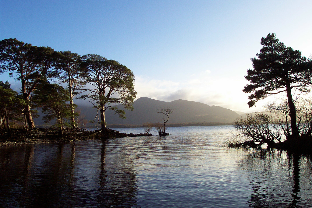 Killarney's lakes November 2005 near Ross Castle